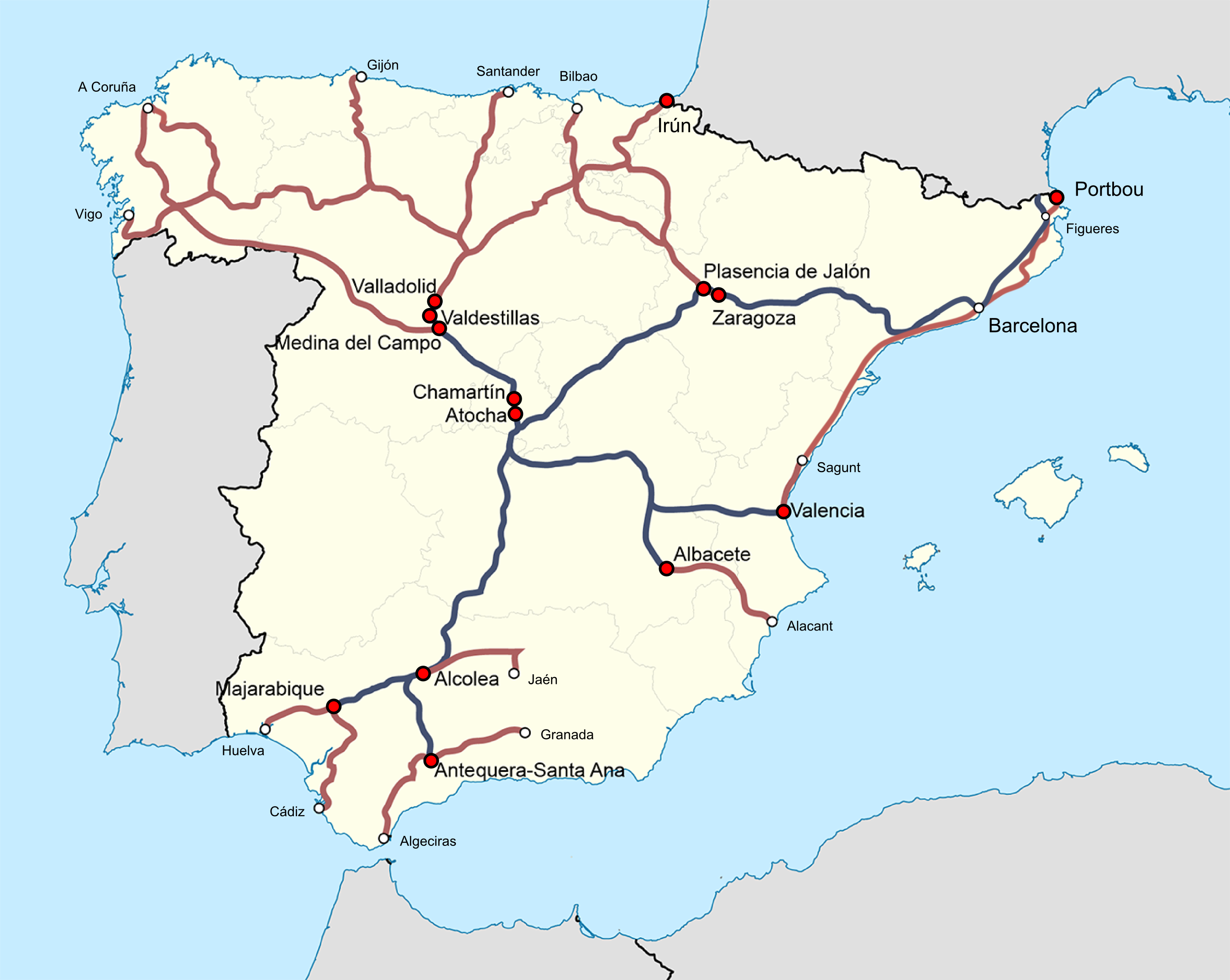 Map of gauge change facilities system Talgo in Spain in the year 2014. Blue: Standard gauge lines (1.435 mm) Red: Iberian gauge lines (1.668 mm) Red: gauge change facilities Only selected railway lines shown, which are in relation with the Talgo gauge change facilities.